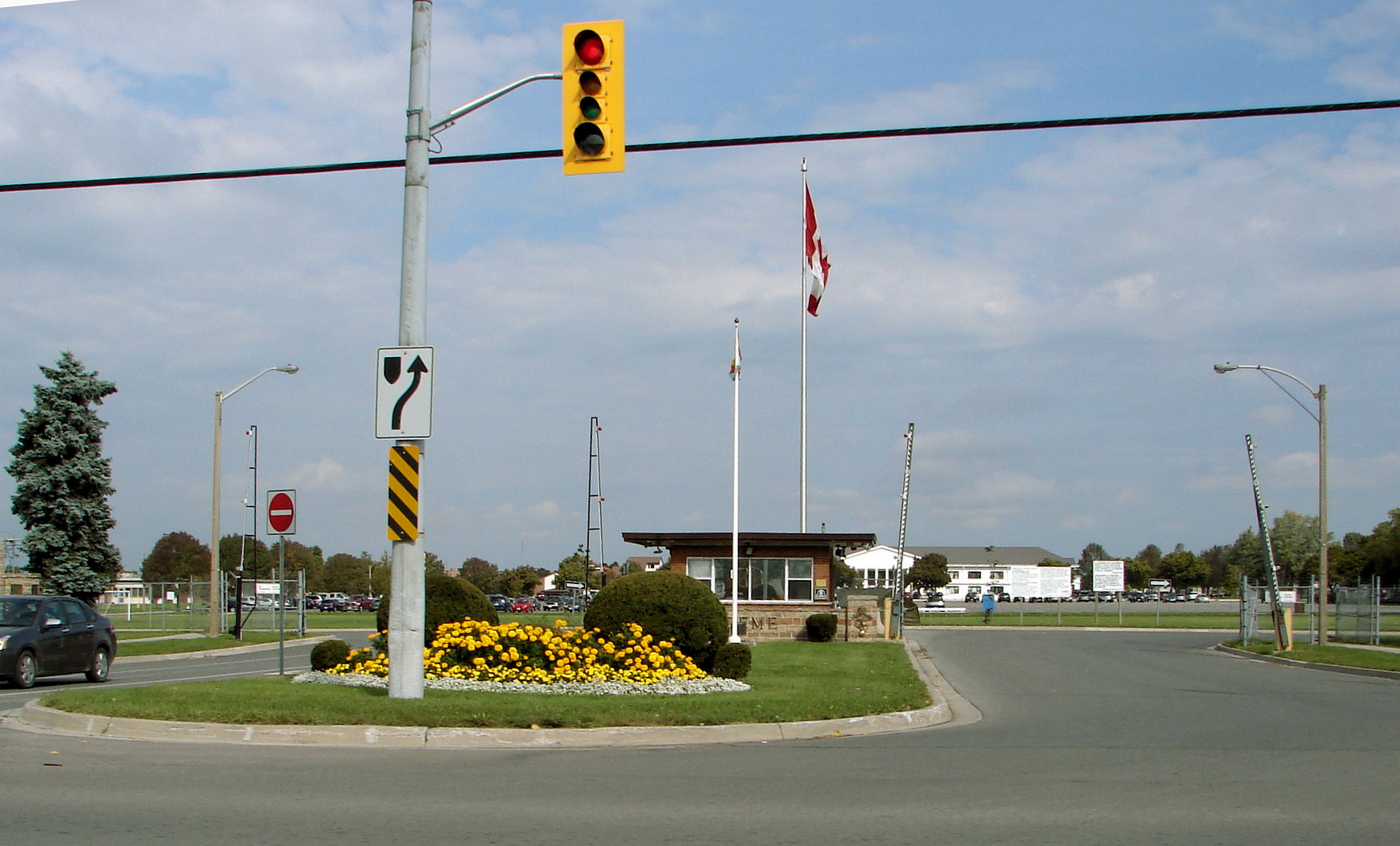 Main entrance of CFB Kingston, Ontario, Canada